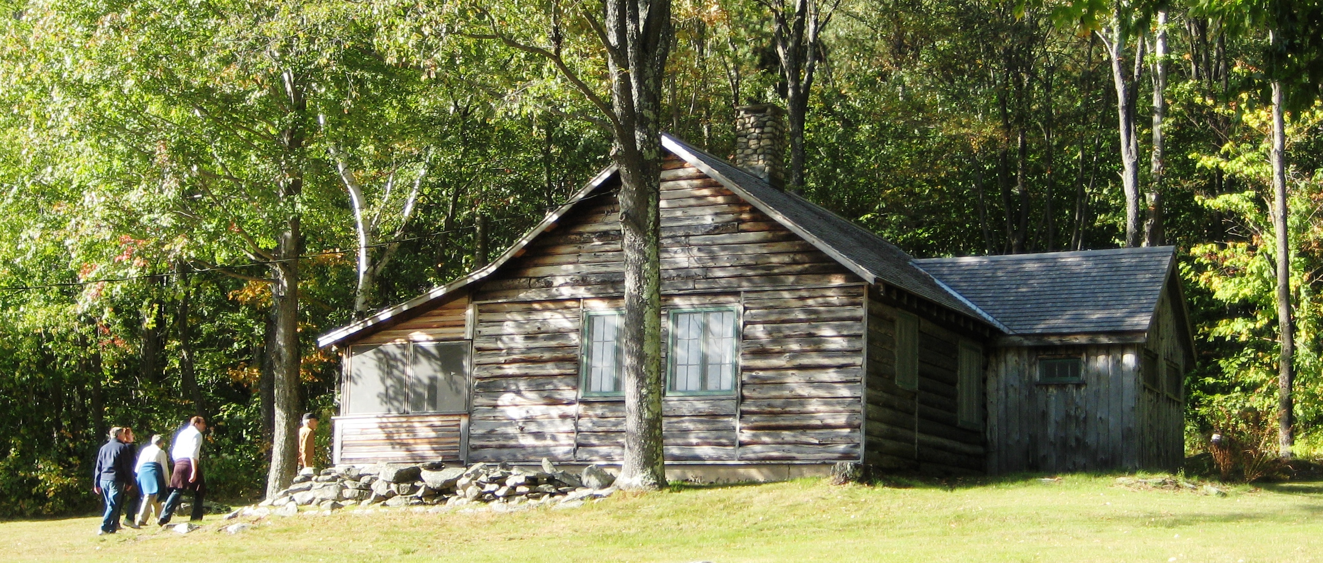 The Robert Frost Cabin in Ripton, Vermont, part of the Robert Frost Farm National Historic Landmark.